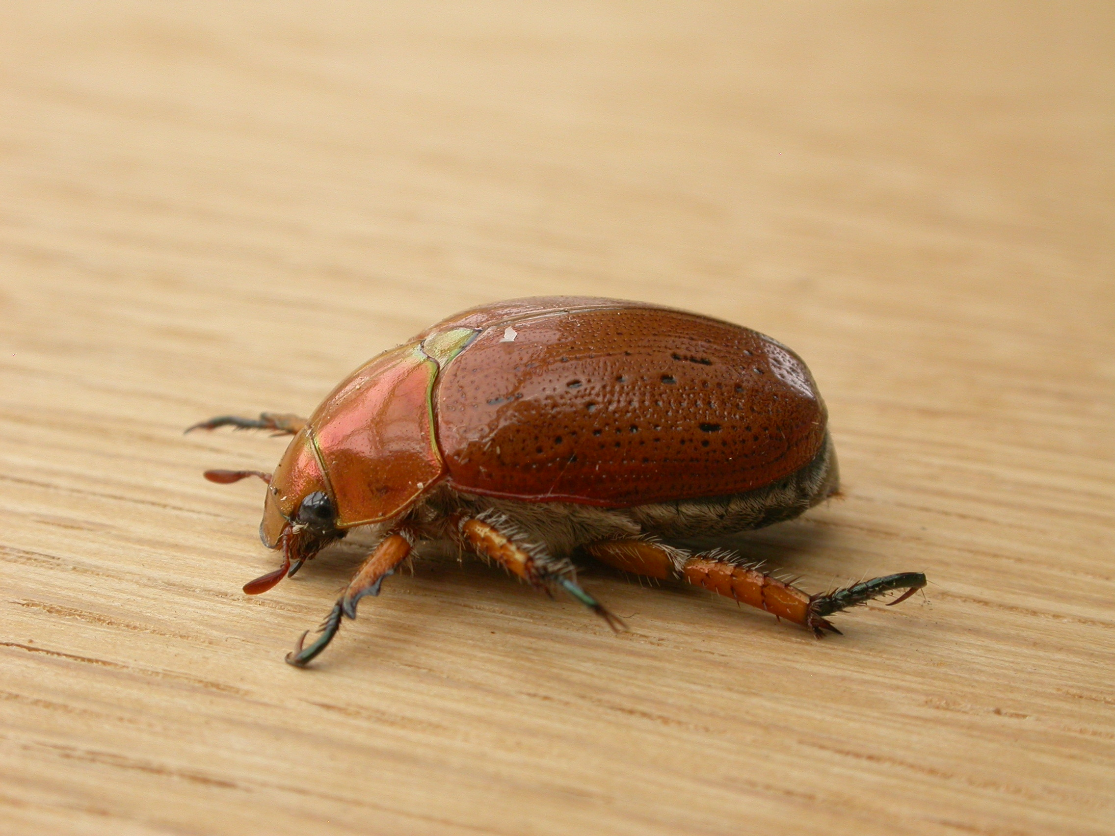 Anoplognathus pallidicollis Blanchard, 1851, to MV light, Aranda, ACT, 5/6 December 2008